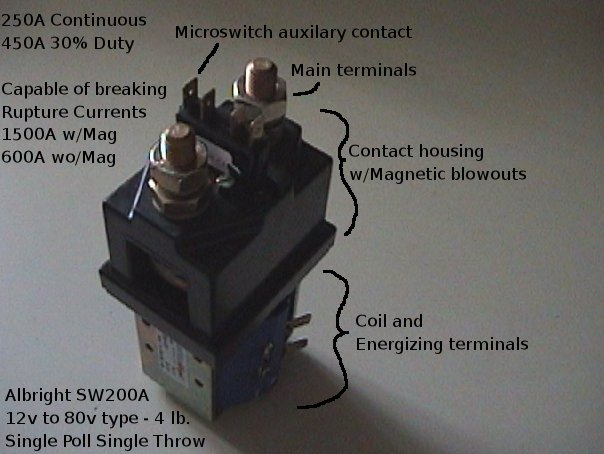 Albright SW200A Contactor, 56v coil, Type SW200A-678